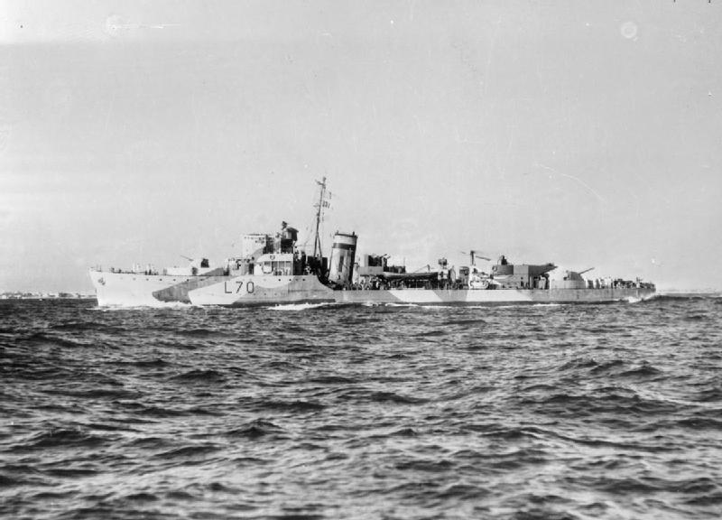 Photograph of British Hunt class destroyer HMS Farndale.